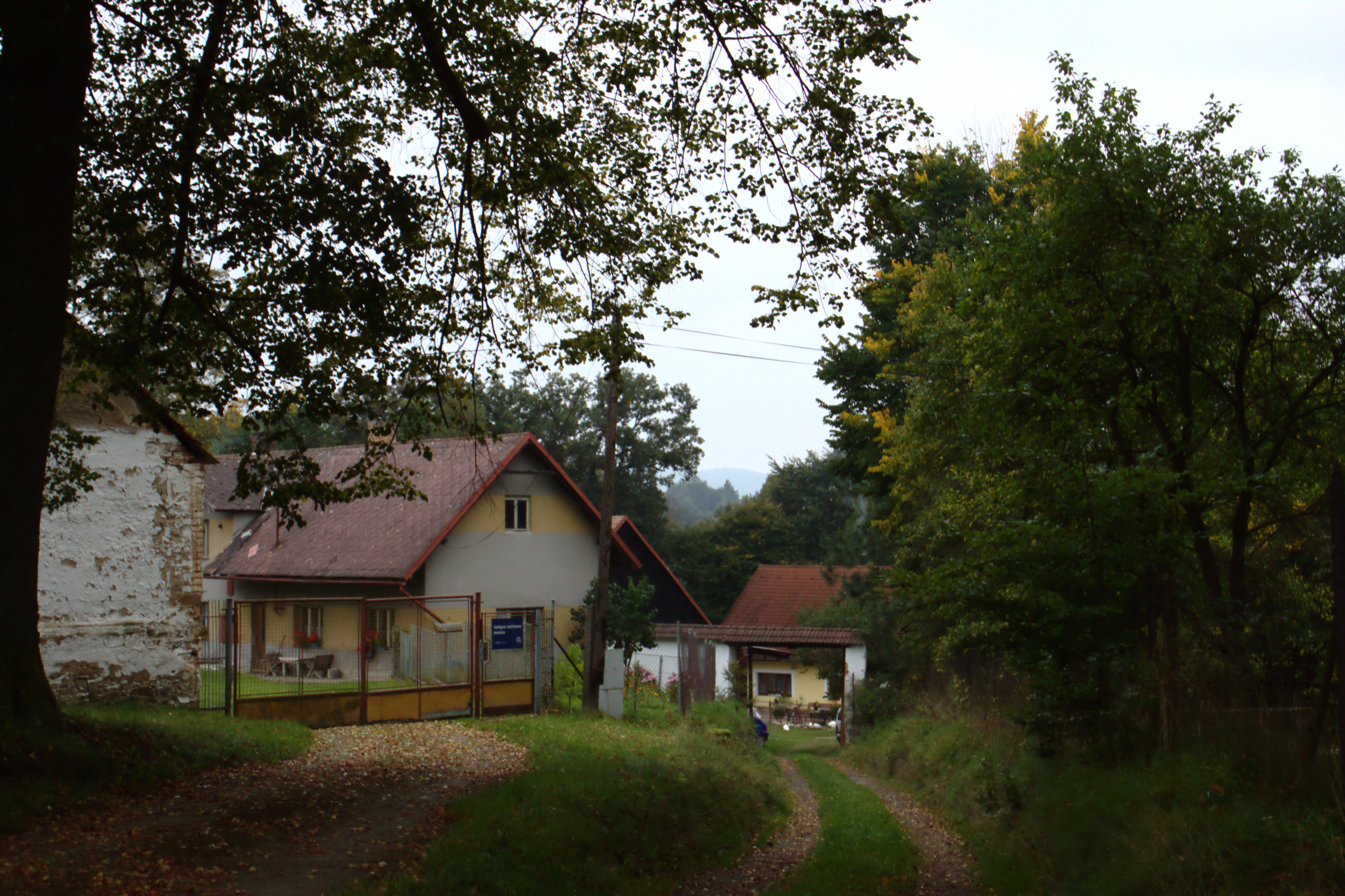 Zahrádka Settlement near Mladá Vožice, South Bohemian Region, CZ